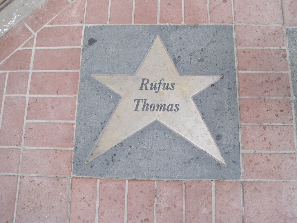 Walk of fame at the Orpheum Theater in Memphis, Tennessee. Rufus Thomas